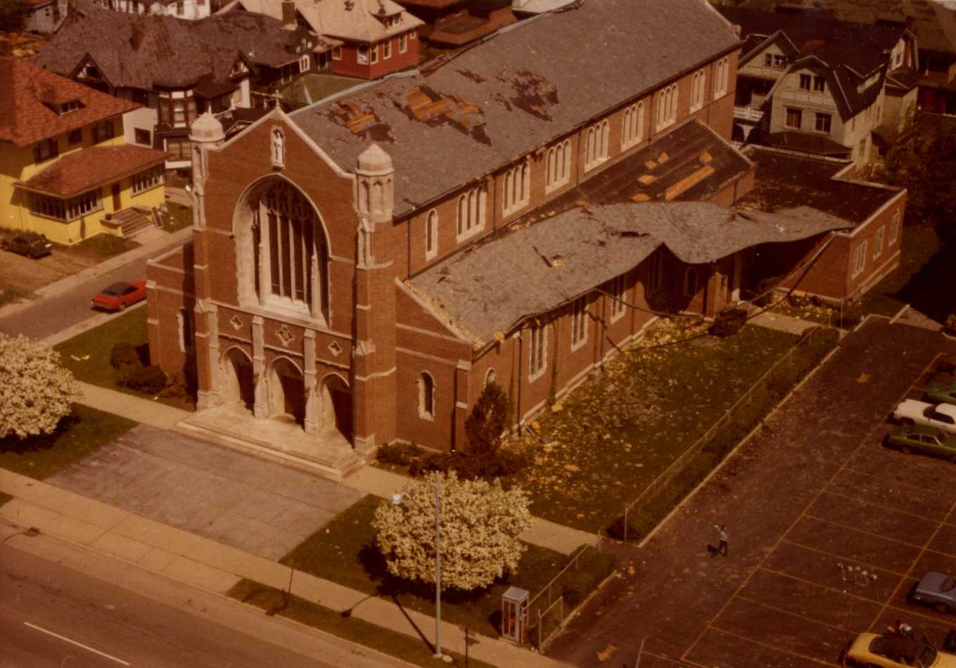 St. Augustine Cathedral. Photo courtesy of Kalamazoo Police Department.